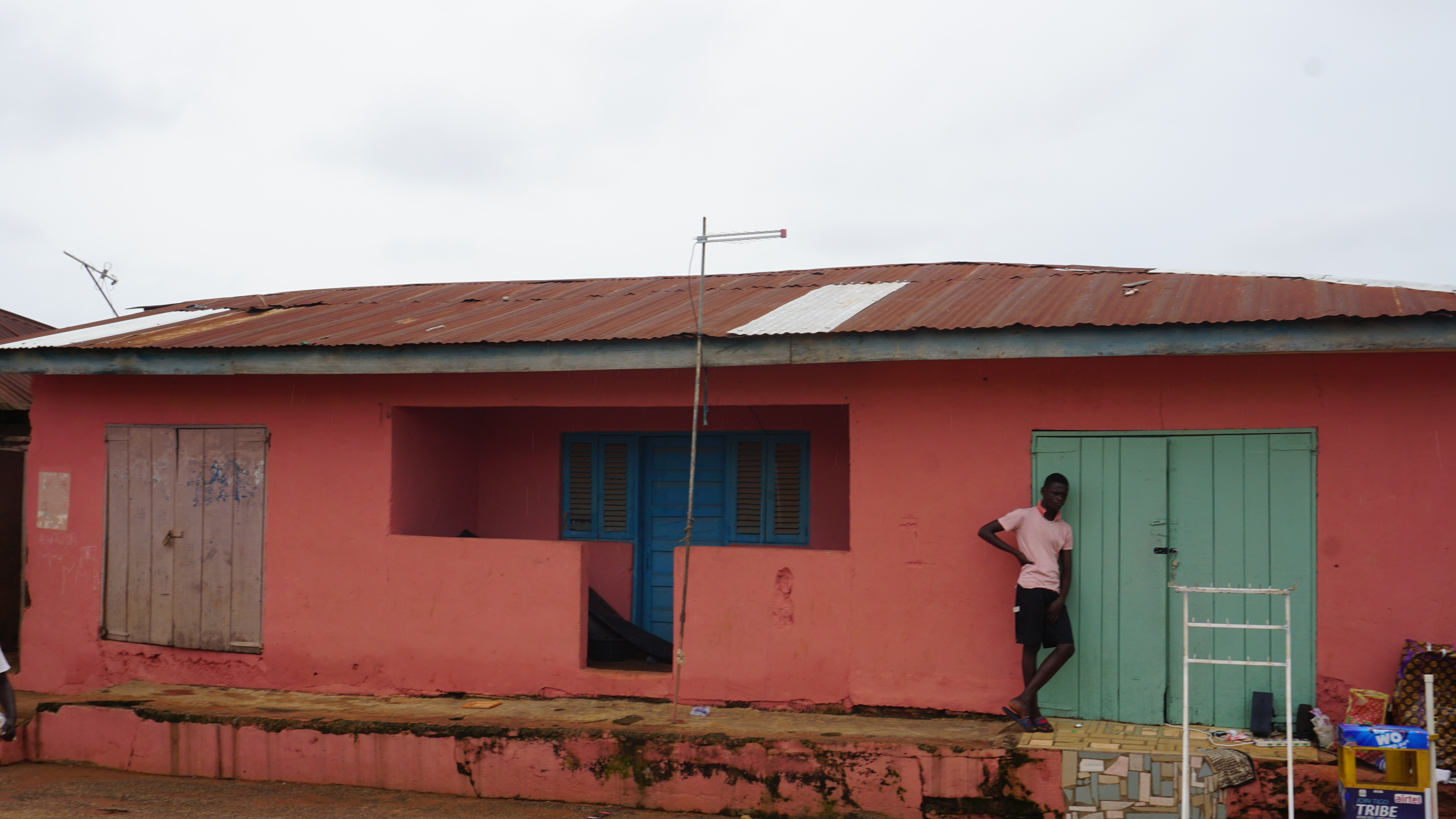 The family house of Yaa Asantewaa located at Besease.